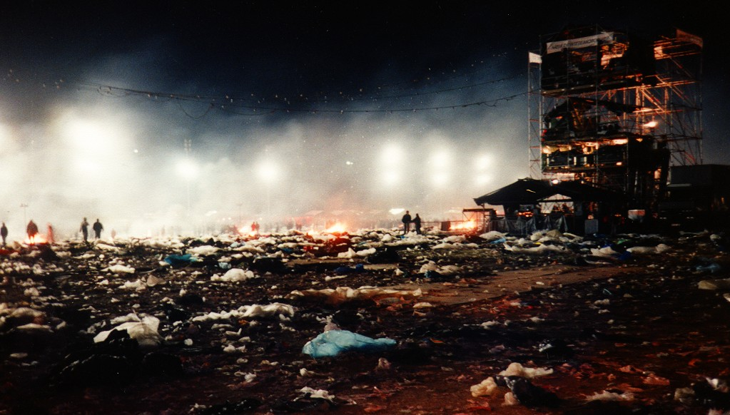 Pinkpop festival grounds after the last crowds have left. 1 AM, June 1 1993, Landgraaf, the Netherlands. Own photo. Rien Post (talk) 23:33, 18 February 2008 (UTC) Required attribution: 'Photo by Rien Post'